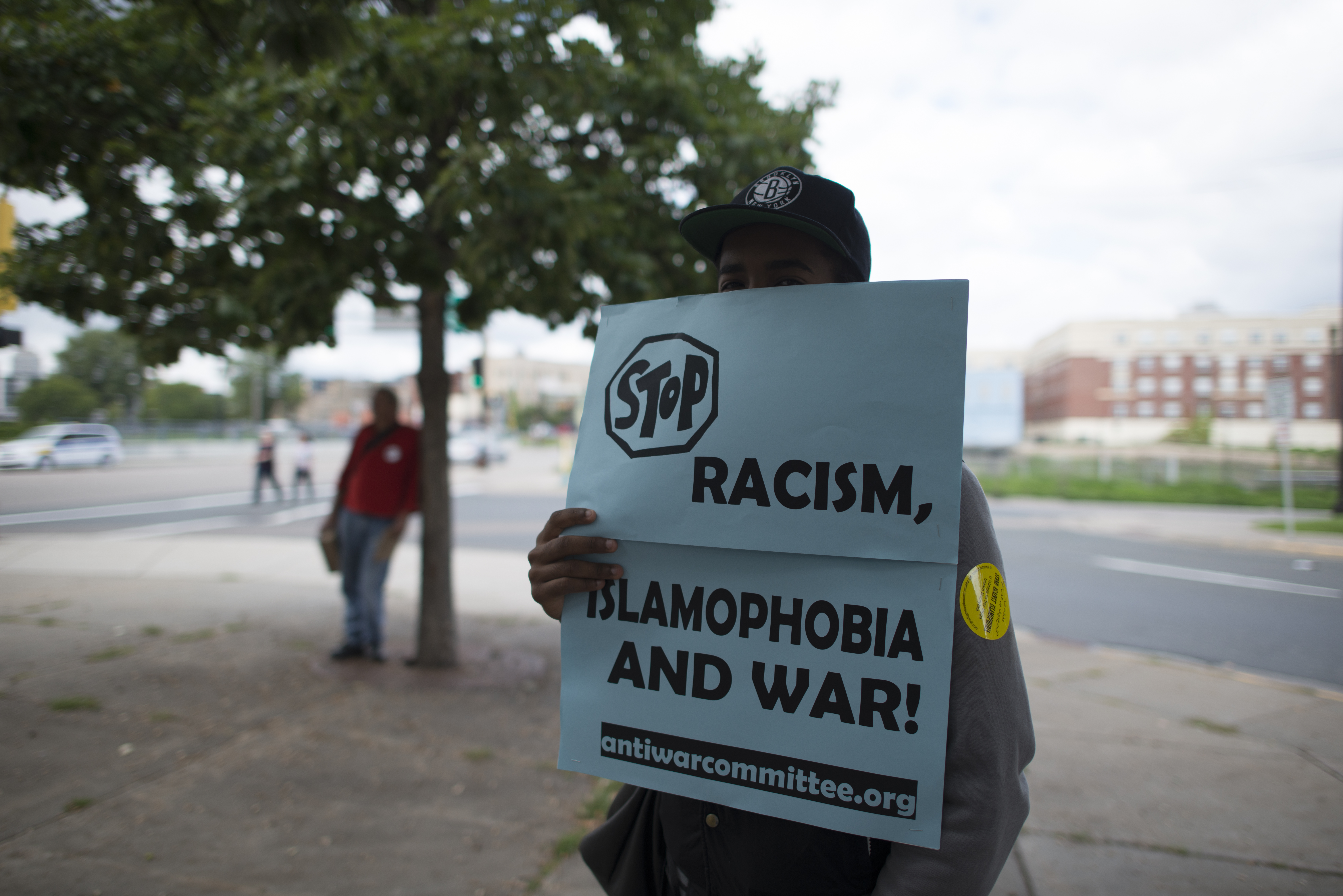 Minneapolis, Minnesota September 17, 2016 About 200 people gathered in east Minneapolis for a rally and march to to denounce hate speech and hate crimes against Muslims. They marched to a nearby Republican Party office to denounce the rhetoric of GOP presidential candidate Donald Trump. Protesters also denounced government surveillance of the Somali community. 2016-09-17 This is licensed under a Creative Commons Attribution License. Give attribution to: Fibonacci Blue